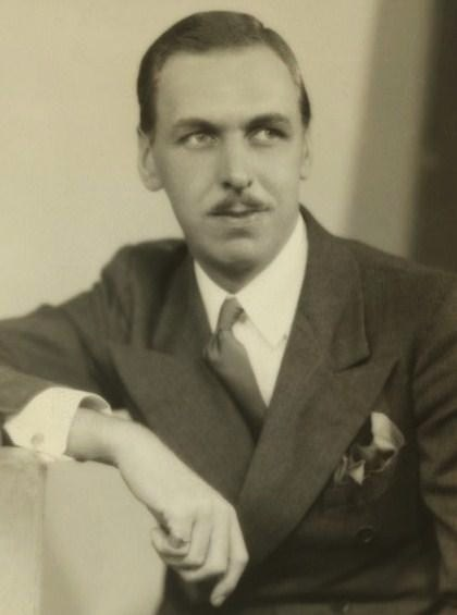 english actor Philip Tonge - publicity still (cropped : see source)